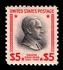 1938 carmine and black $5 US presidential series postage stamp featuring Calvin Coolidge